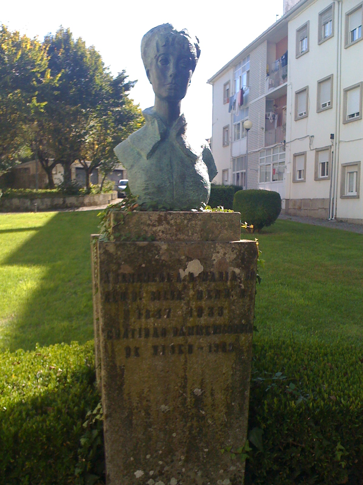 D. Maria do Céu Mendes but in Viseu town, in the neighborhood with her name